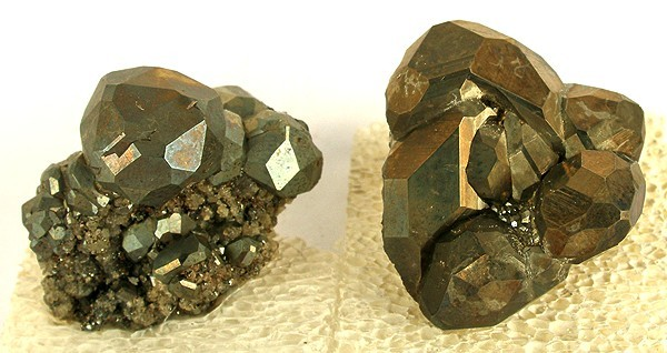 Pyrite Locality: Nanisivik Mine, Nanisivik, Baffin Island, Nunavut Territory, Canada (Locality at ) Size: 2.7 x 2.7 x 1.7, 2.9 x 2.2 x 1.9 cm. This is a set of two matching pyrite thumbnails with different habits. Both specimens from the Canadian locality of Baffin Island in the Northwest Territory of Canada. Each is very sharp and fine, though with different "looks". Ex. Richard Hauck Collection.